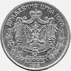 5 Perper, silver coin of the former Kingdom Montenegro (1912)